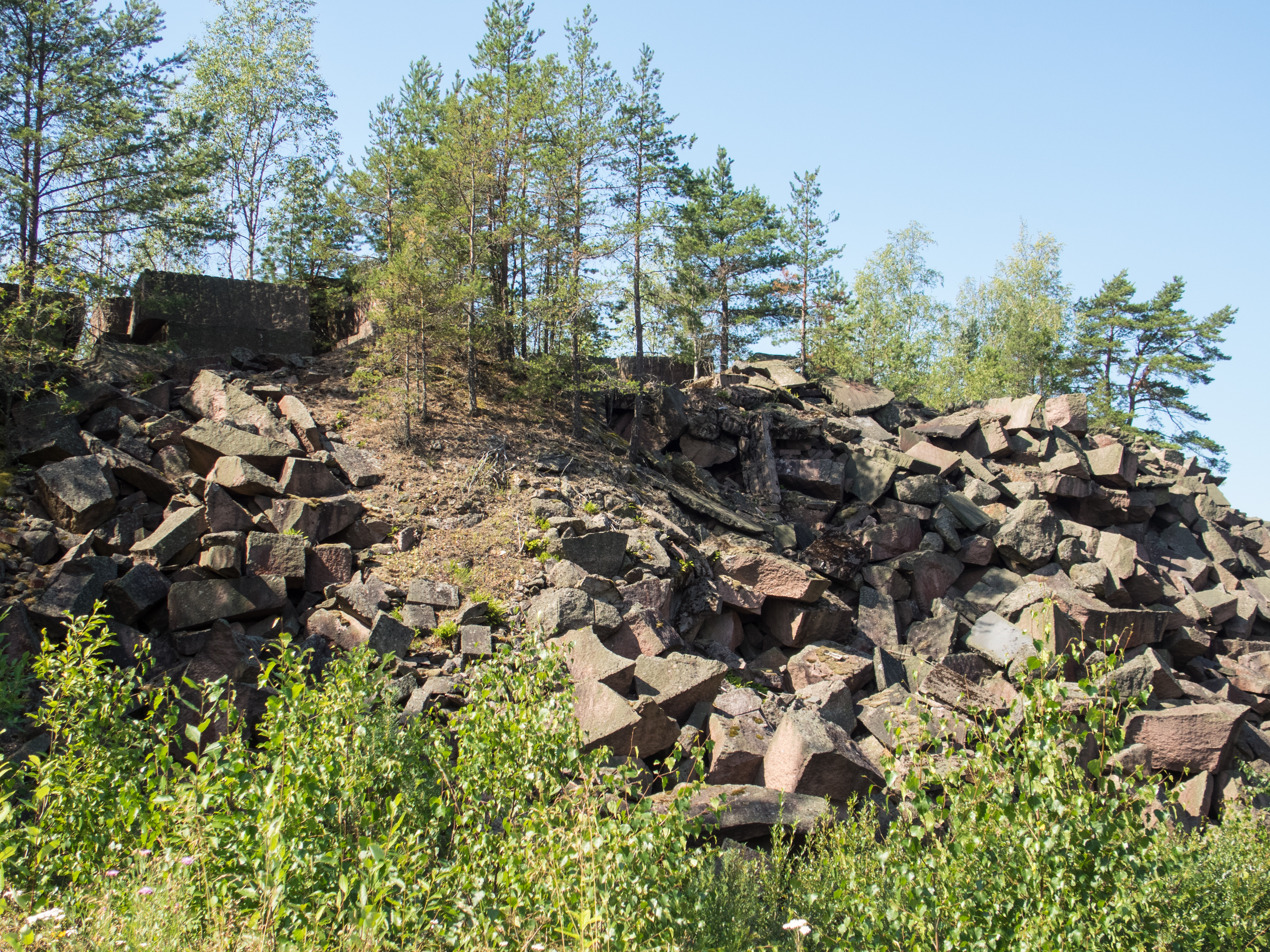 Stone quarry on the roadside in Uhlu village, Vehmaa, Finland.